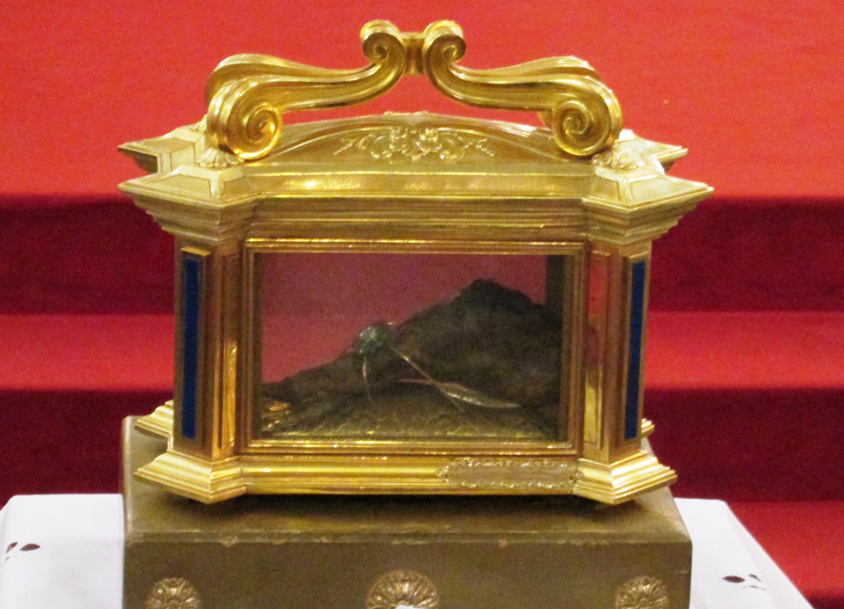 The relic of Saint Teresa of Ávila - her foot, in visit to cathedral of Saint Teresa of Ávila in Bjelovar, Croatia